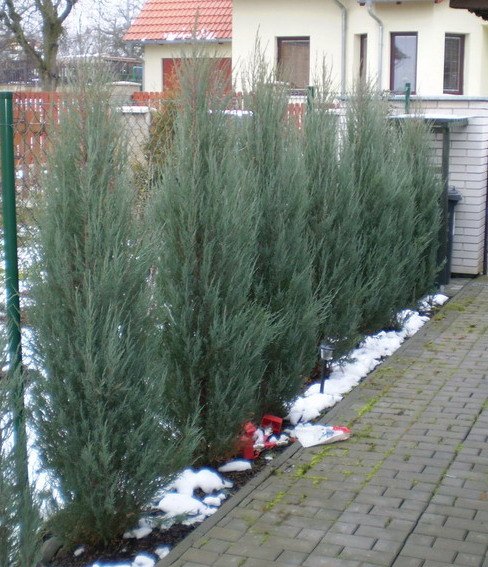 Juniperus scopulorum 'Skyrocket'